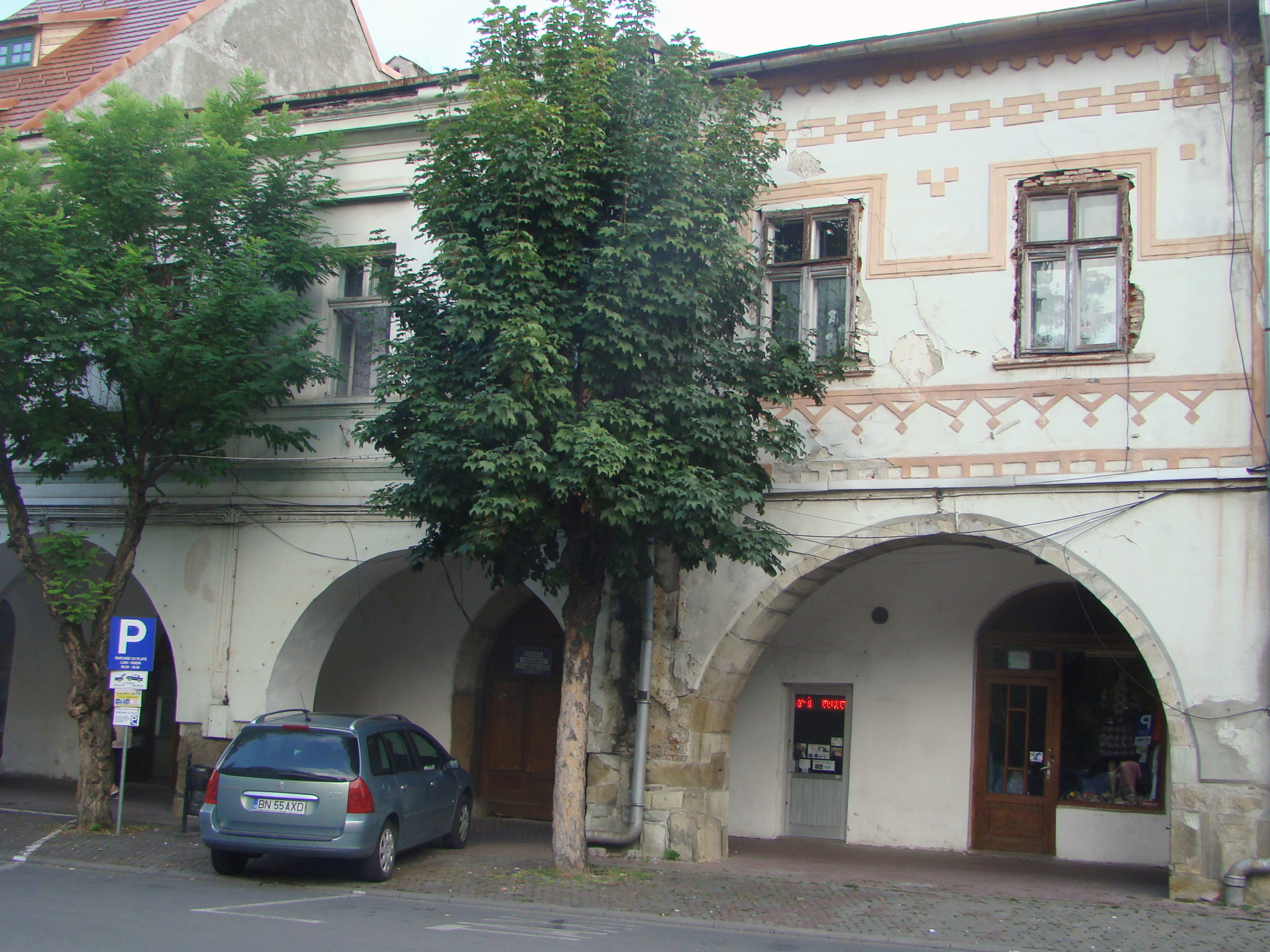 Houses, historic monuments, in Bistrița, Piața Centrală 13-24